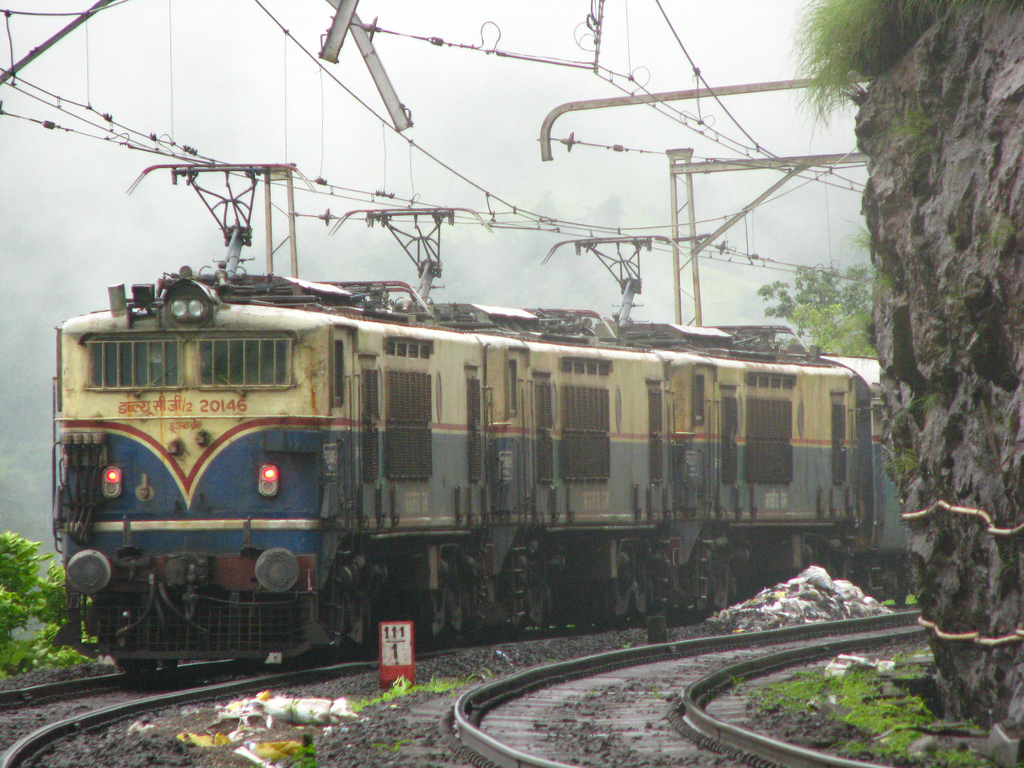 A WCG2 triplet escorts the Intercity up the ghats.